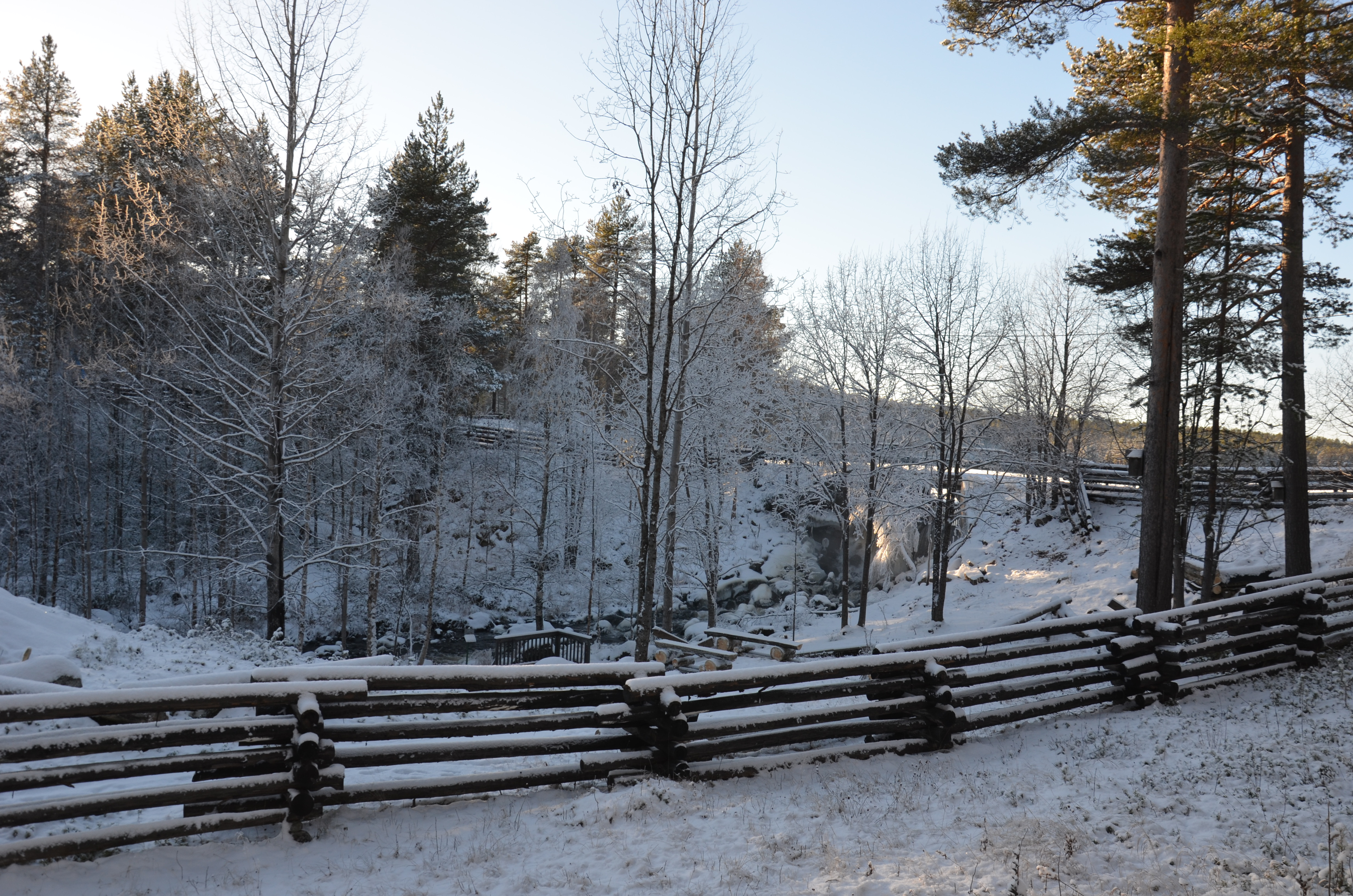 Jokkmokks fjällträdgård i vinterskrud, den västra delen mot Talvatissjöns utlopp i Kvarnbäckens